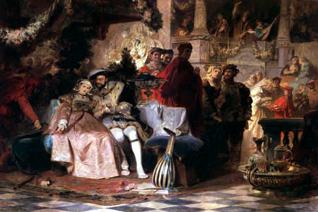 Henry VIII with Anne Boleyn at Cardinal Wolsey's ball, by Karl von Piloty